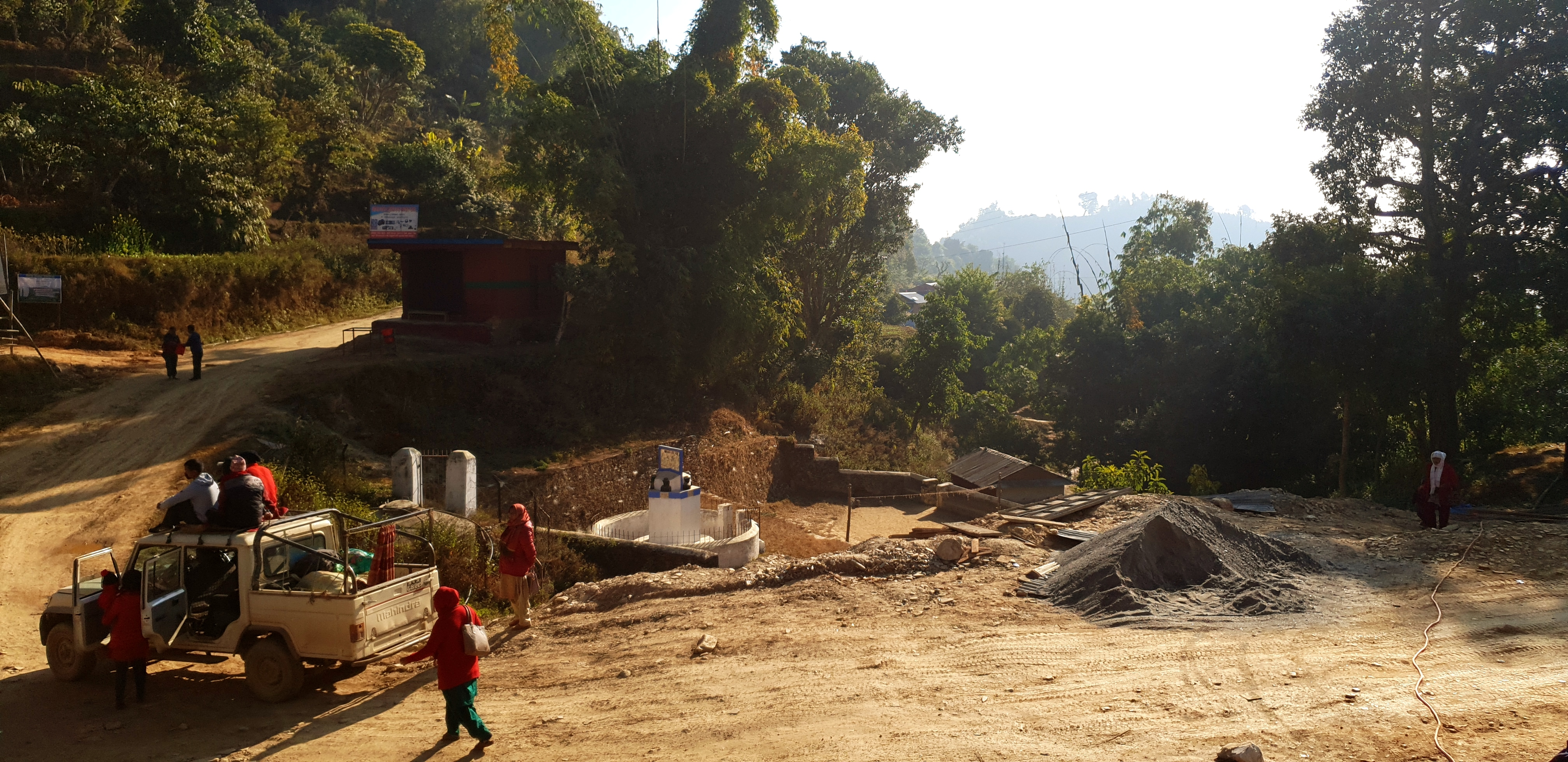 Harinas Gaunpalika